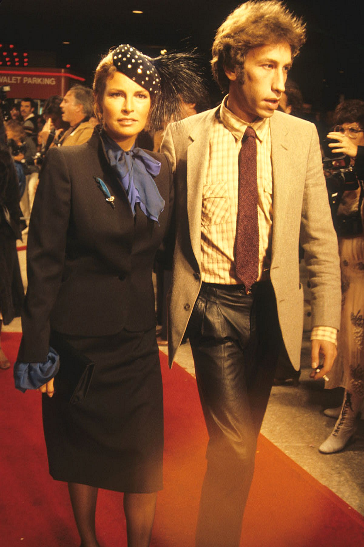 Raquel Welch and husband Andre Weinfeld arrive at the premiere of Midler's movie, THE ROSE, 1979.